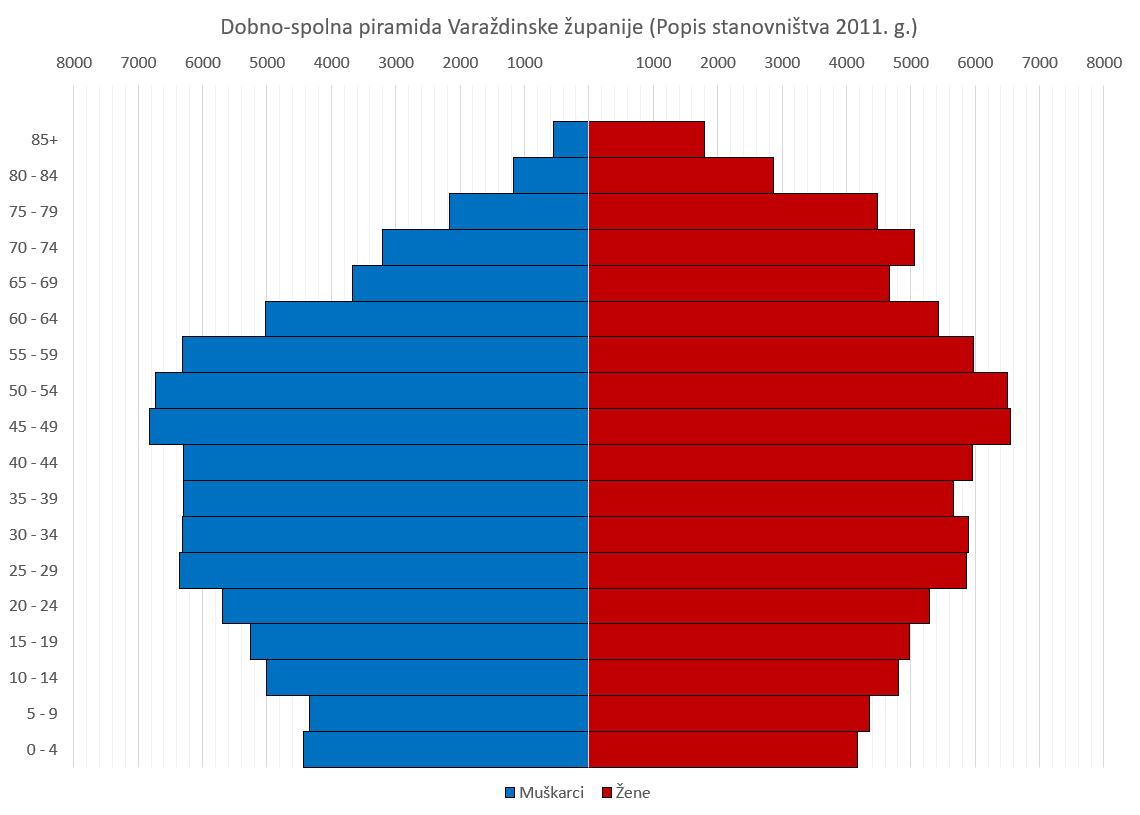 Population pyramid of Varaždin County. Version in Croatian. Data from 2011 Census; available at